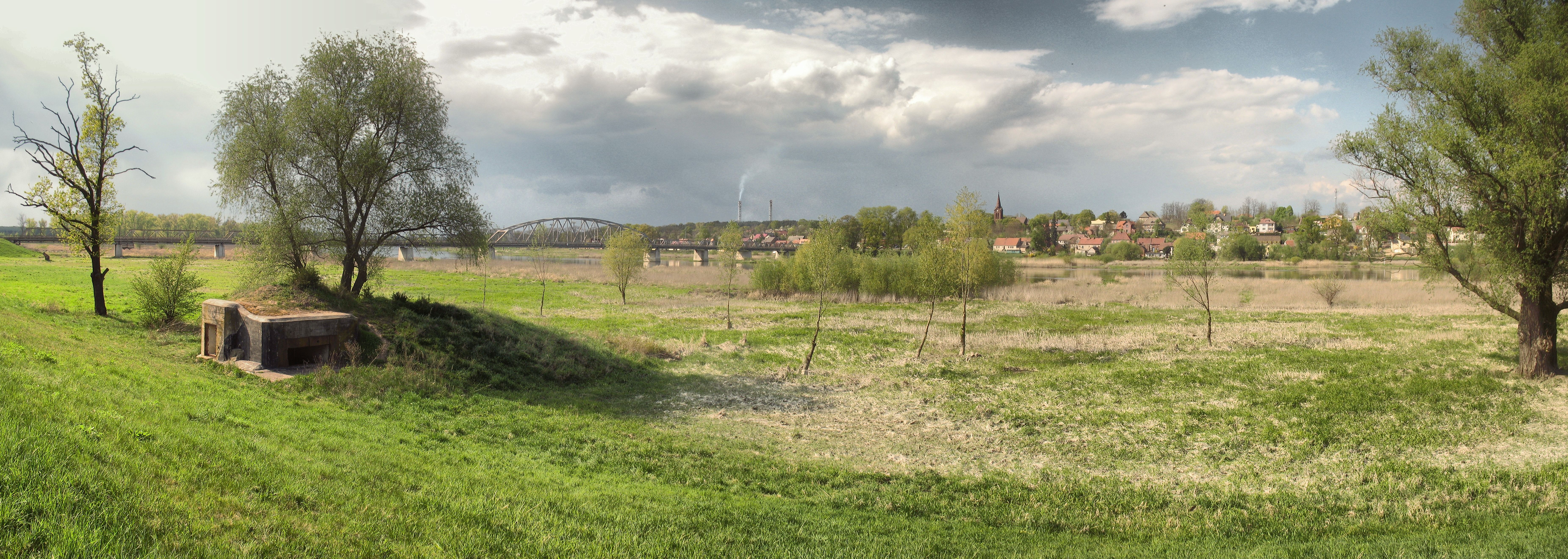 Oderstellung, its remains near the village of Leśna Góra